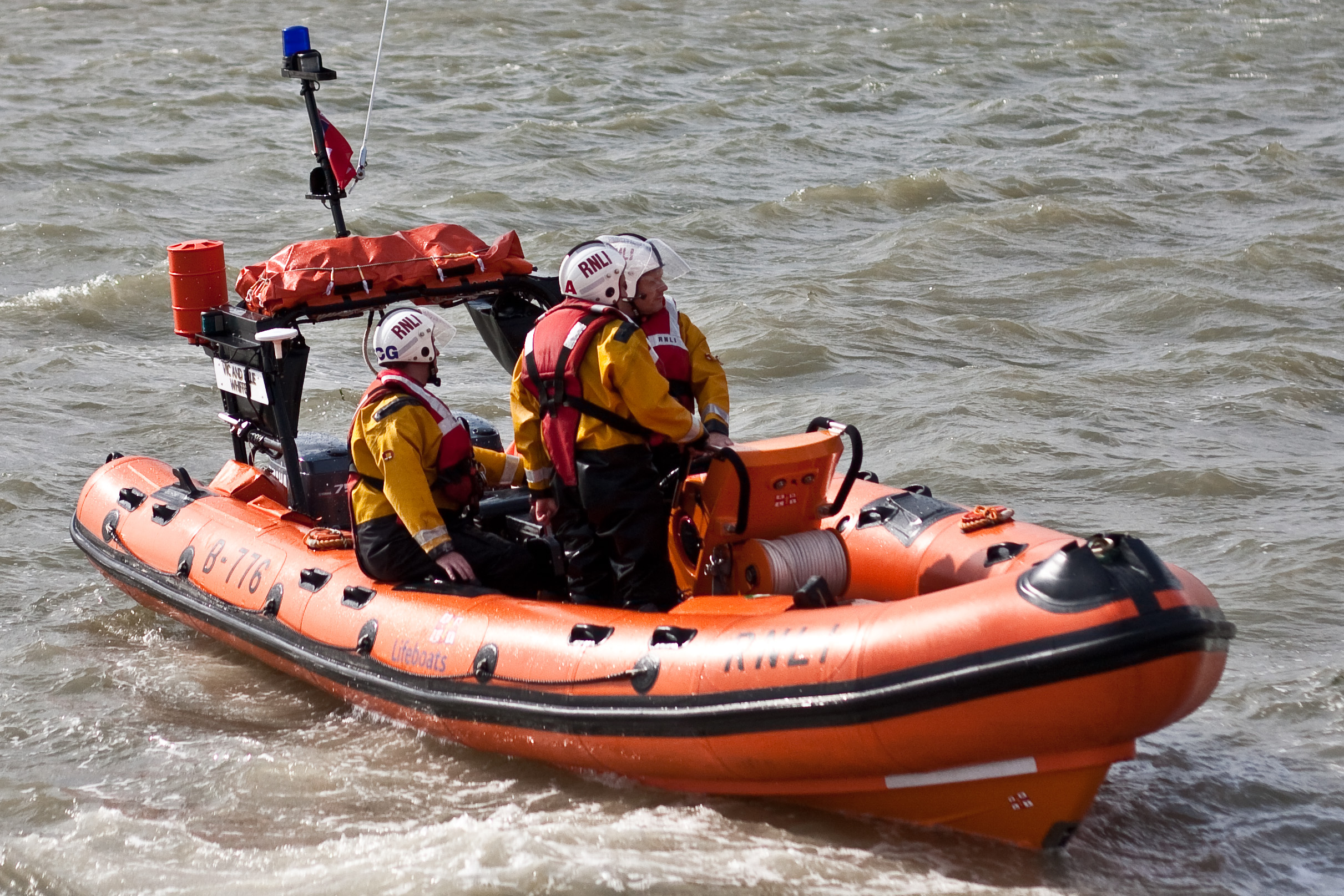 The lifeboat at Leigh-on-Sea.